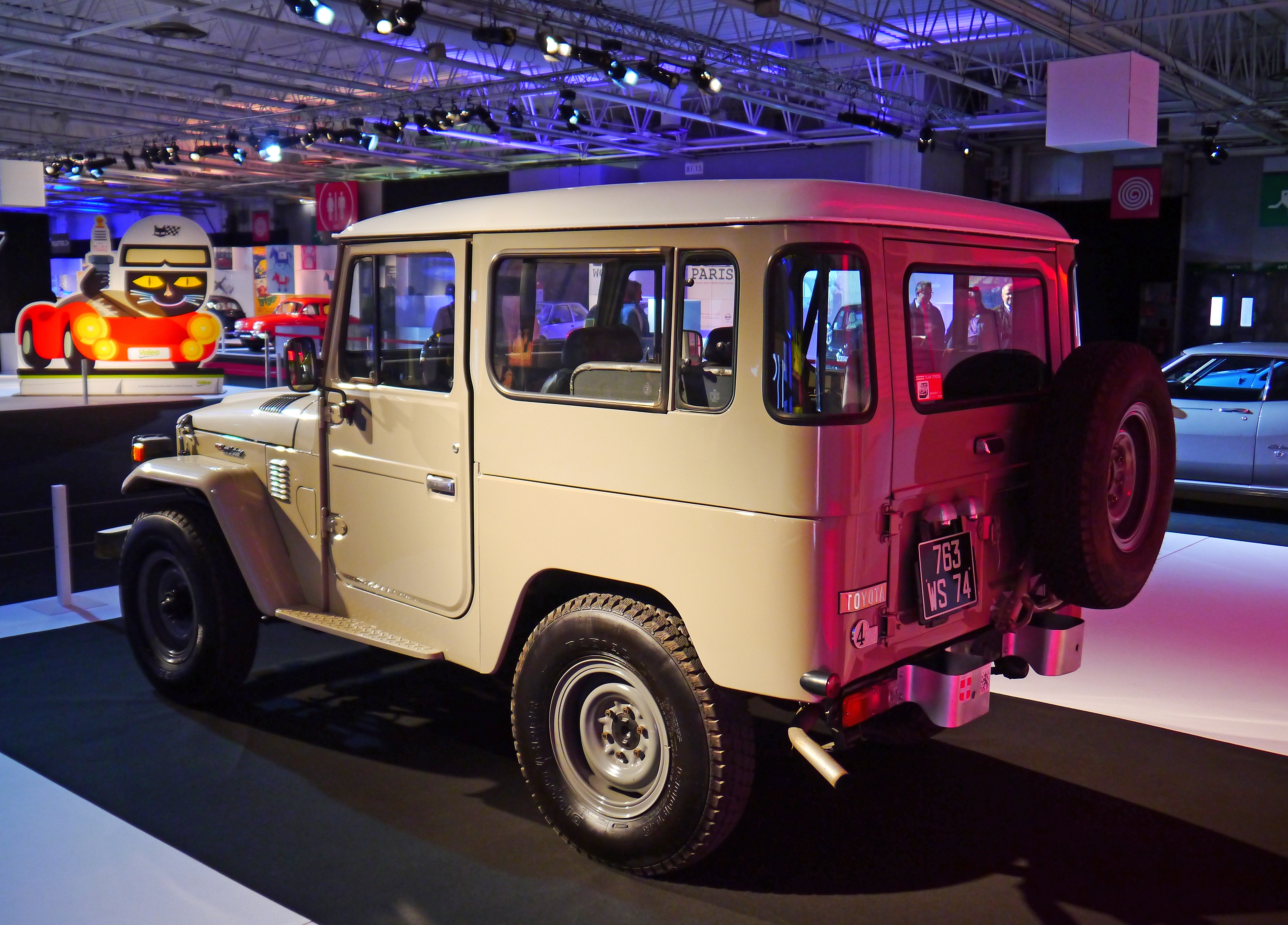 1974–1979 Toyota Land Cruiser. 4-cylinder 2997 cc diesel engine (59 kW; 85 bhp).